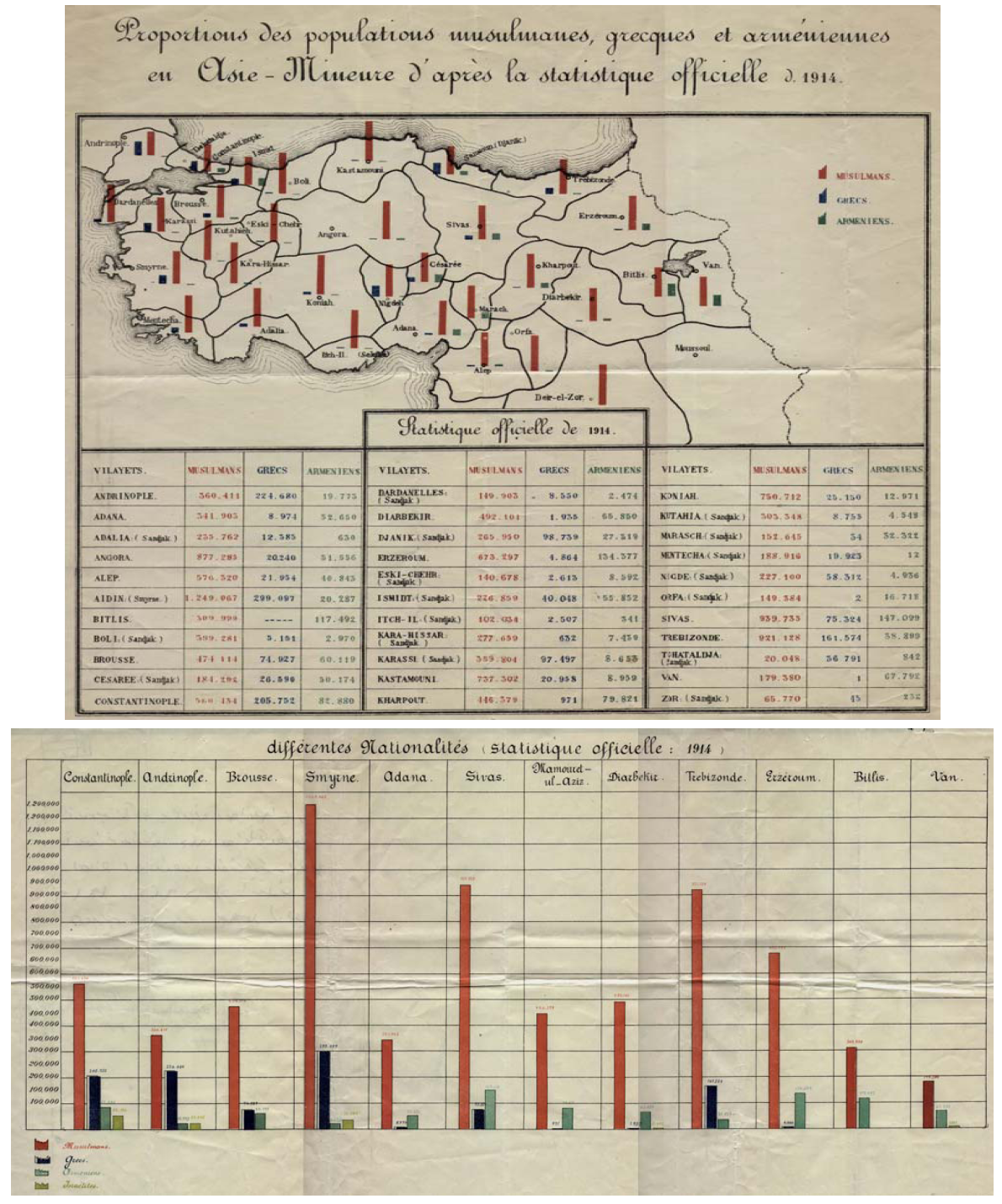 The Ottoman Empire archive document regarding the official census of 1914. first column "musulman" (muslims) total pop: 14,155,755**, second "grecs" (Greeks), third "arménien" (Armenians) total pop: 1,219,323